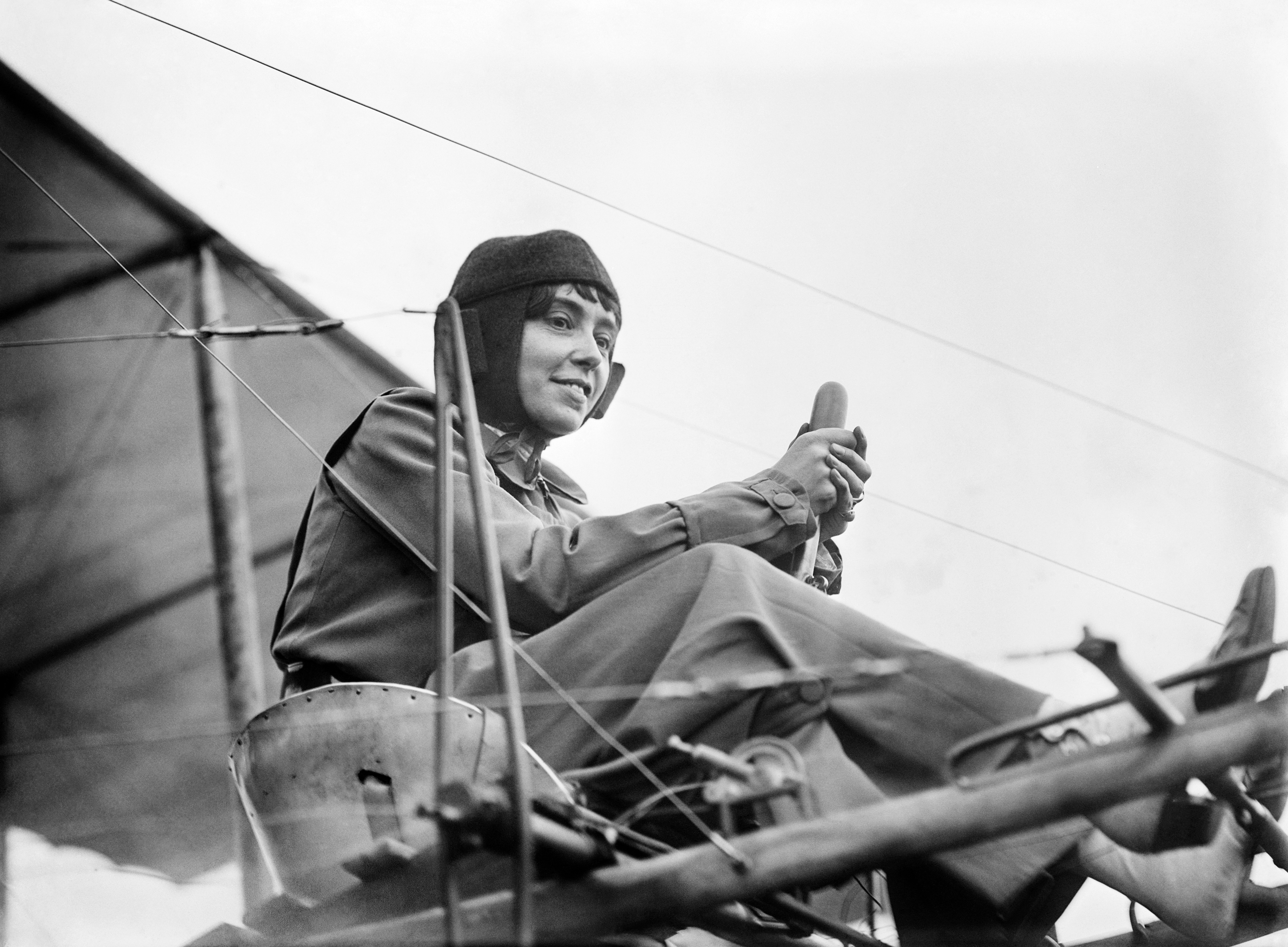 Aviator Hélène Dutrieu seated in her airplane.